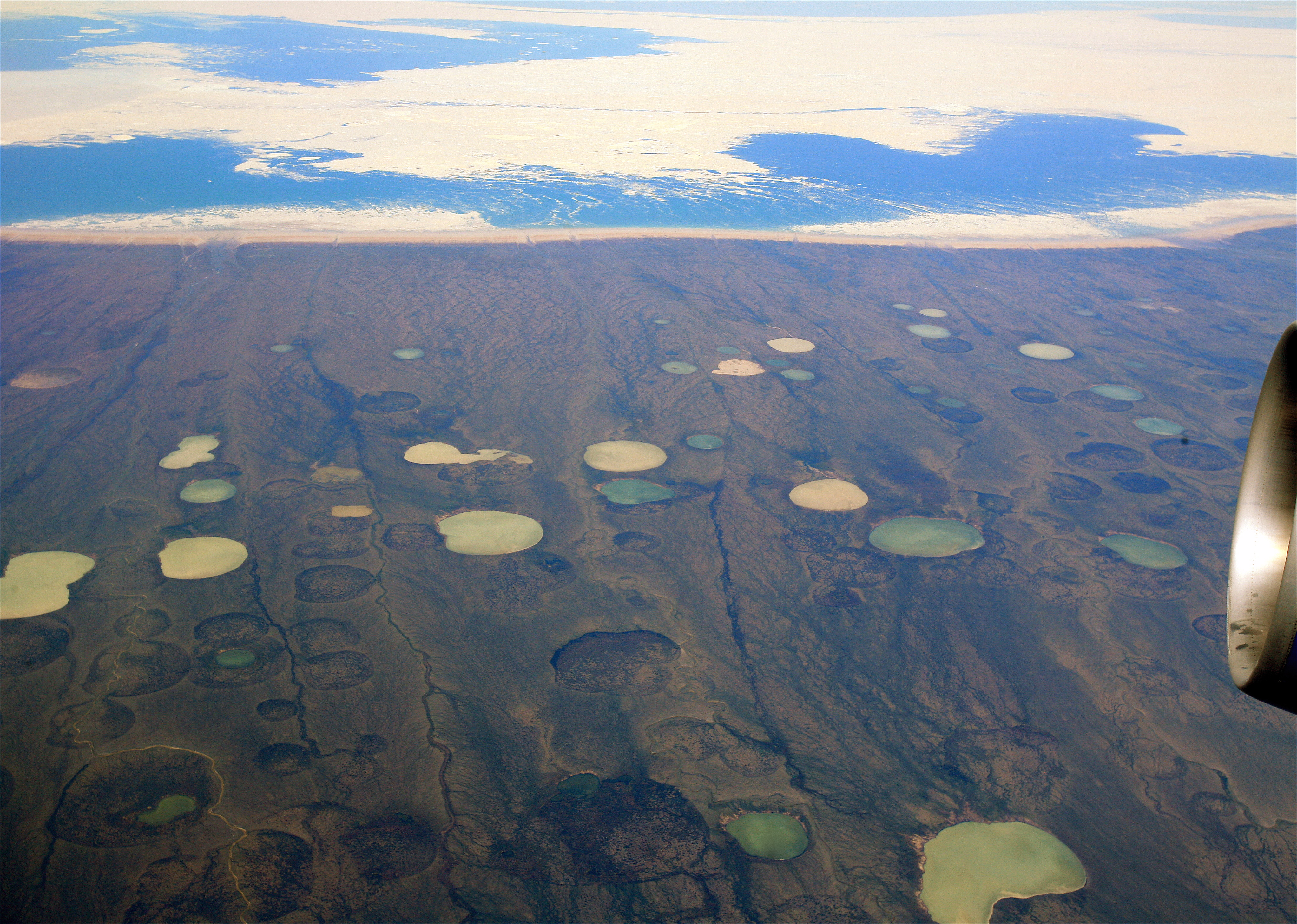 Photo shows what appears to be permafrost thaw ponds in Hudson Bay, Canada, near Greenland. (By inspection this photo appears to match a location at 66°11′10″N 73°26′42″W / 66.18611°N 73.445°W in Dewey Soper Migratory Bird Sanctuary on Baffin Island, overlooking the waters of the Hudson Bay near Greenland)